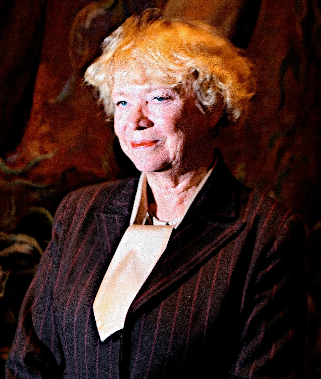 Eva Joly in Oslo, 2006.